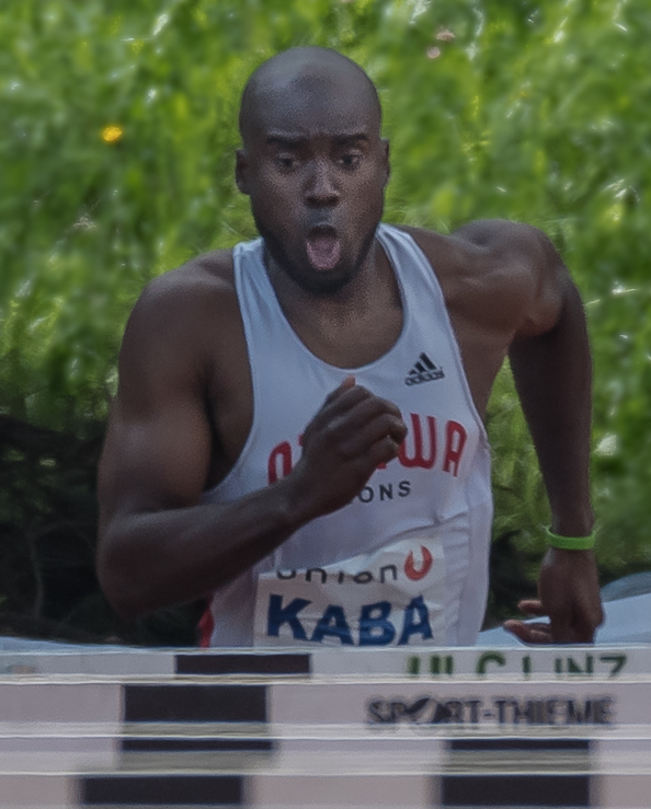 Leichtathletikgala Linz 2017 - Hurdling 110 m men